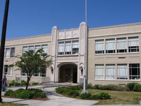 Taken August 2006. John Jacob Astor Elementary in Astoria, OR